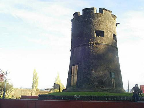 Talk